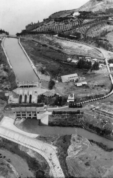 An aerial view of the Rutenberg Hydroelectric Plant in Naharayim and the workers' neighborhood, Tel Or